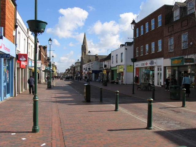 Sittingbourne Original description: High Street, Sittingbourne